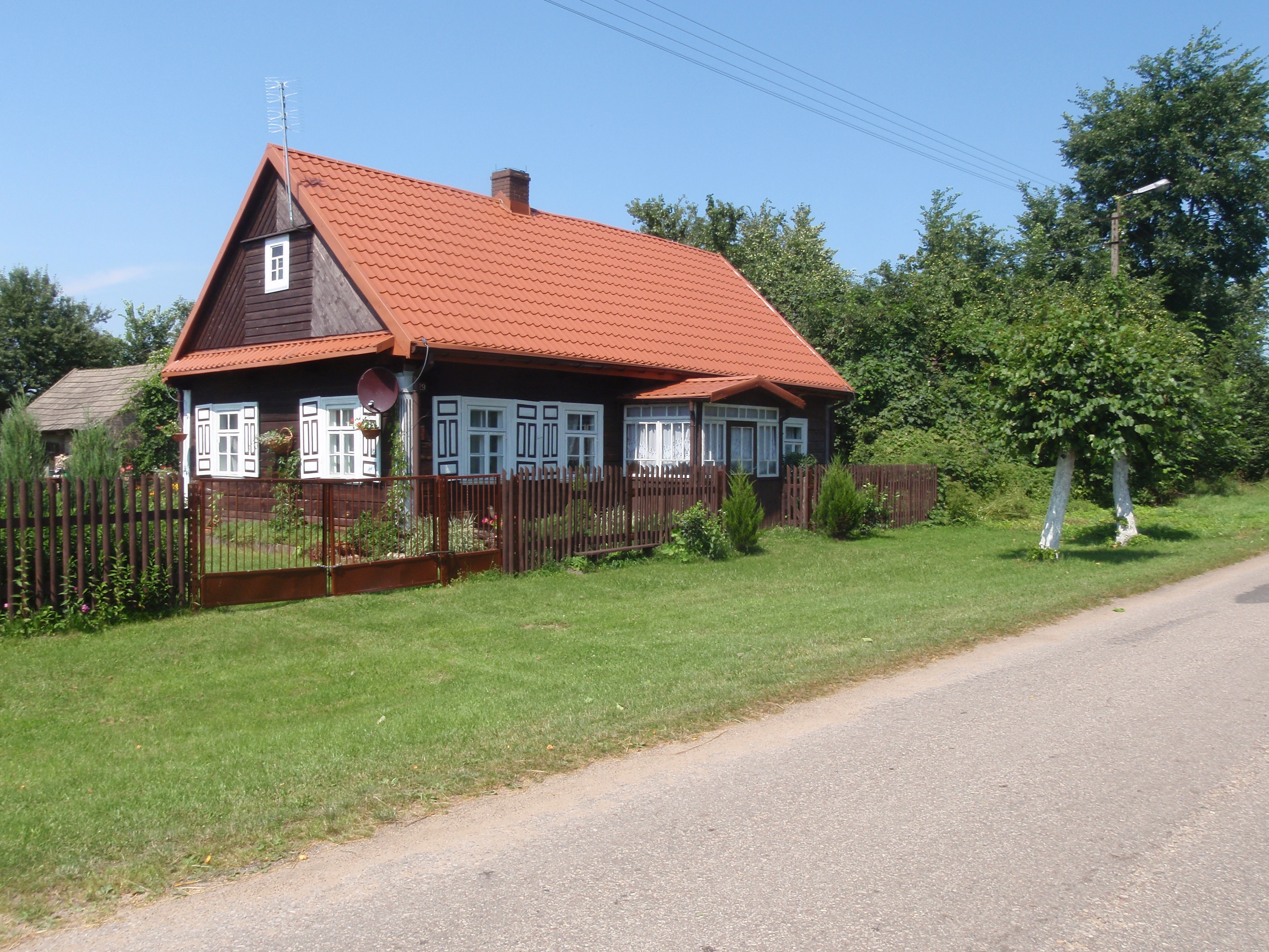 house no. 19 in village Chrabostówka, POLAND